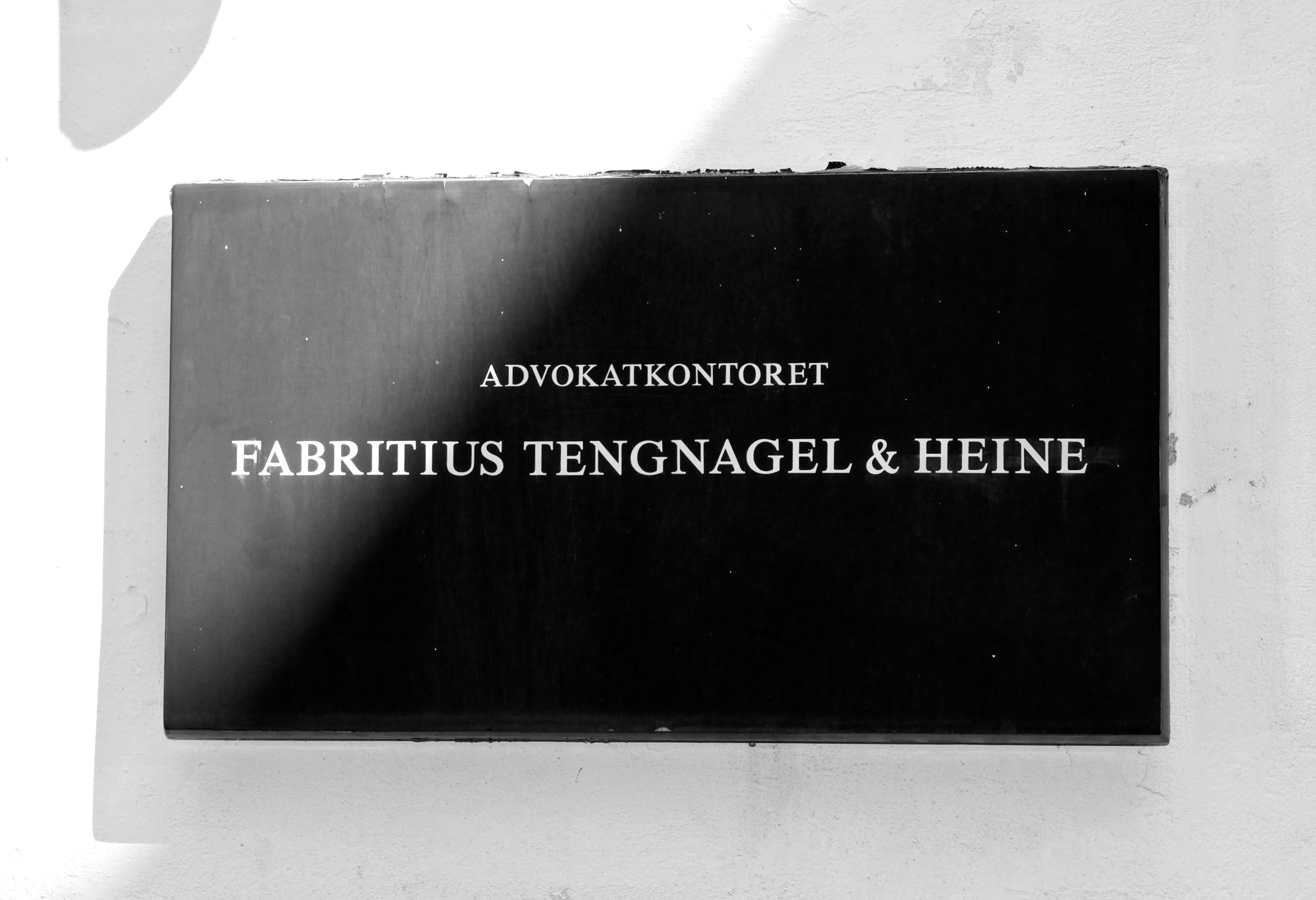 Fabritius Tengnagel og Heine